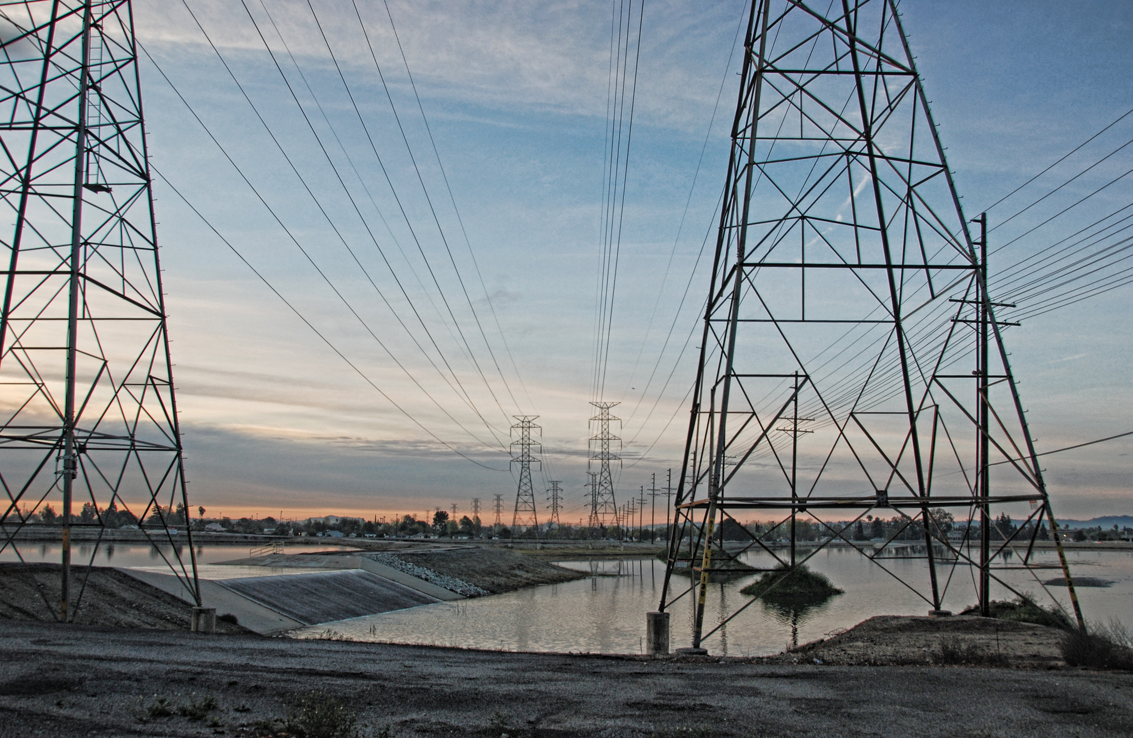 Power Grid within the Pacoima Spreading Grounds, Los Angeles